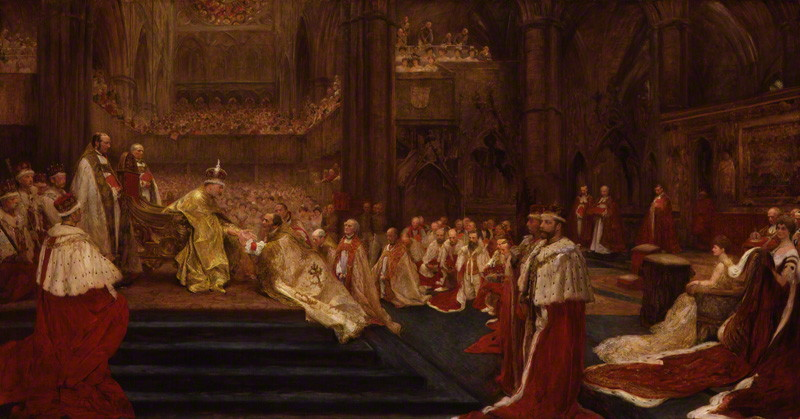 Royal coronation of king Edward VII, August 9, 1902